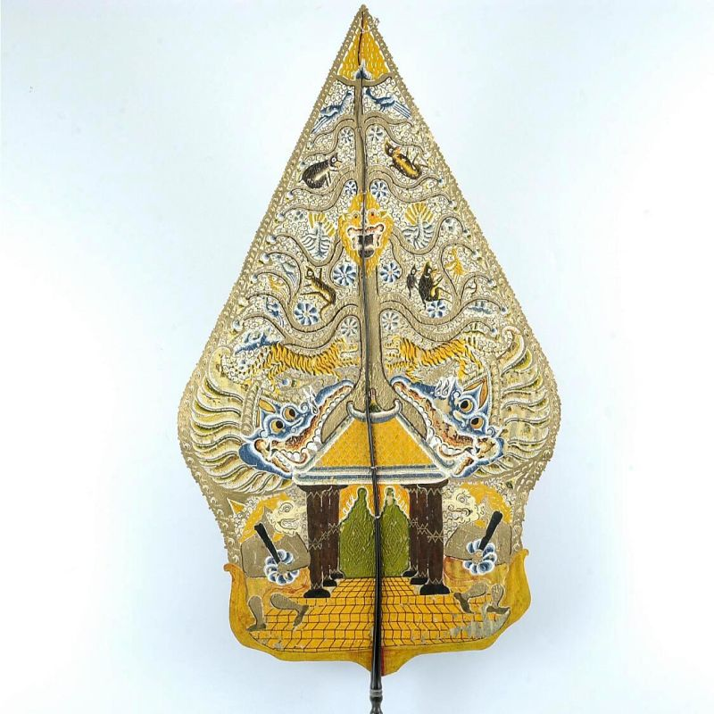 Wayang kulit figure of buffalo hide, representing an interval sign